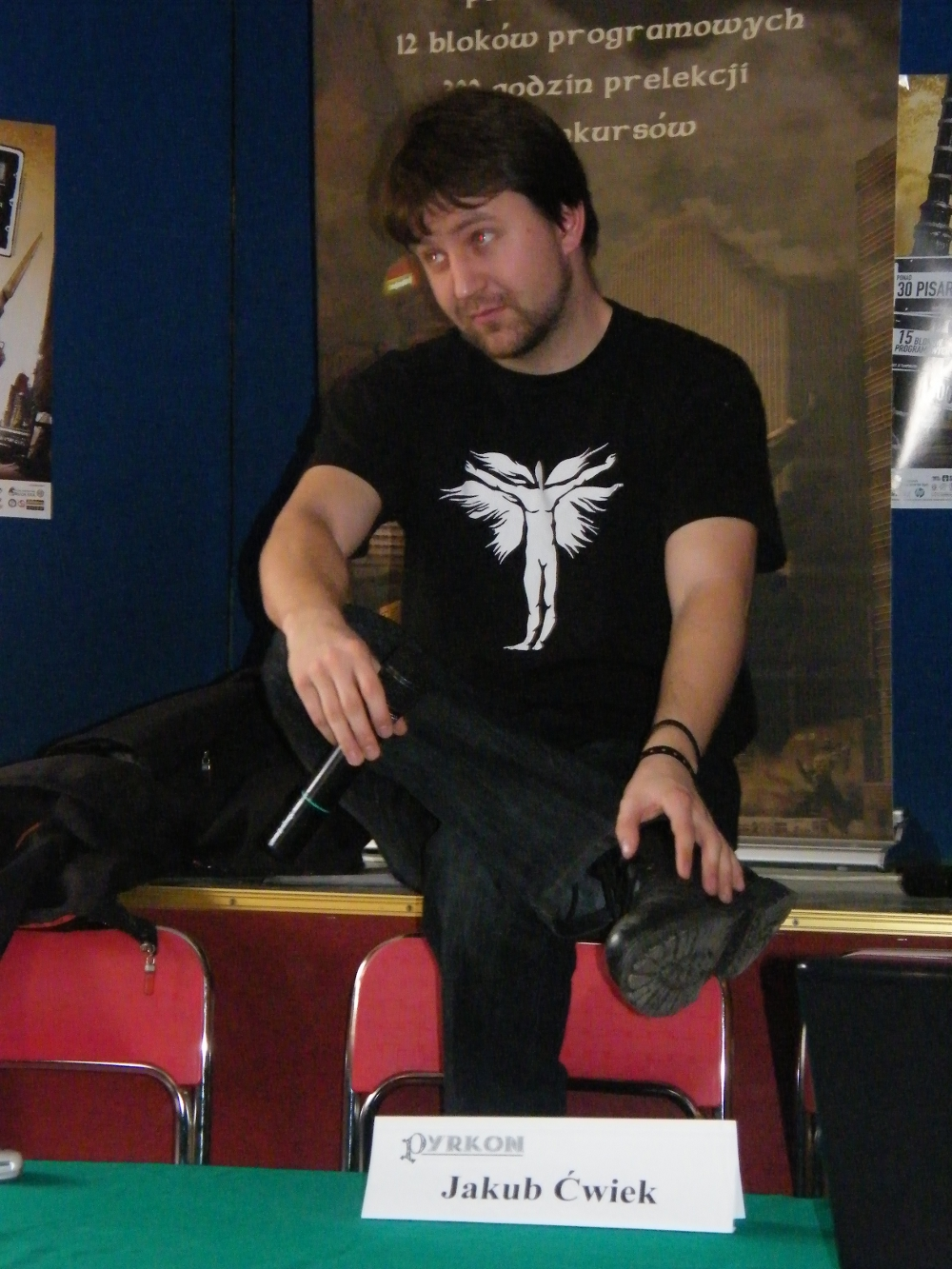 Jakub Ćwiek, a polish fantasy writer (Pyrkon 2009, Poznań)